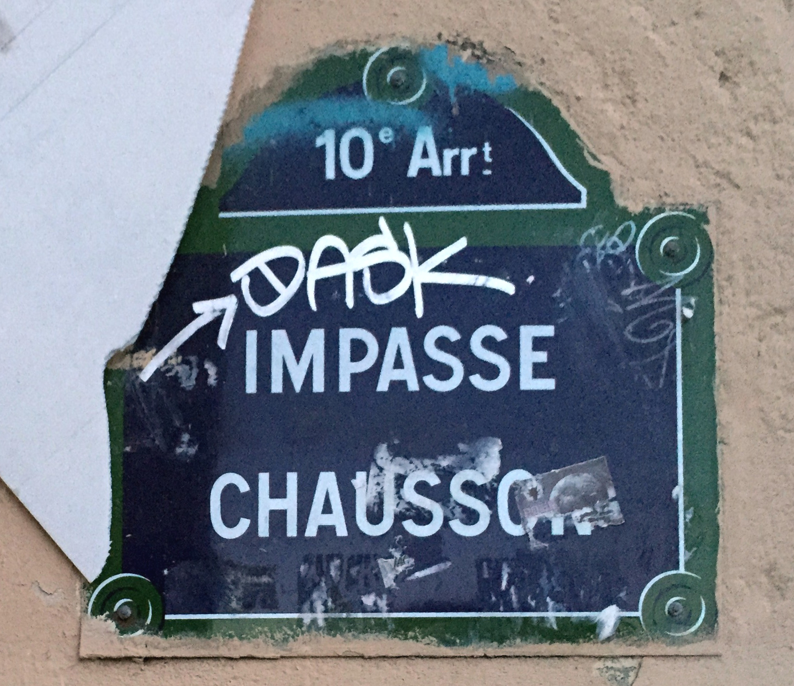 This photograph was taken with an iPhone 6